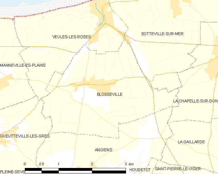 Map of French municipality Blosseville